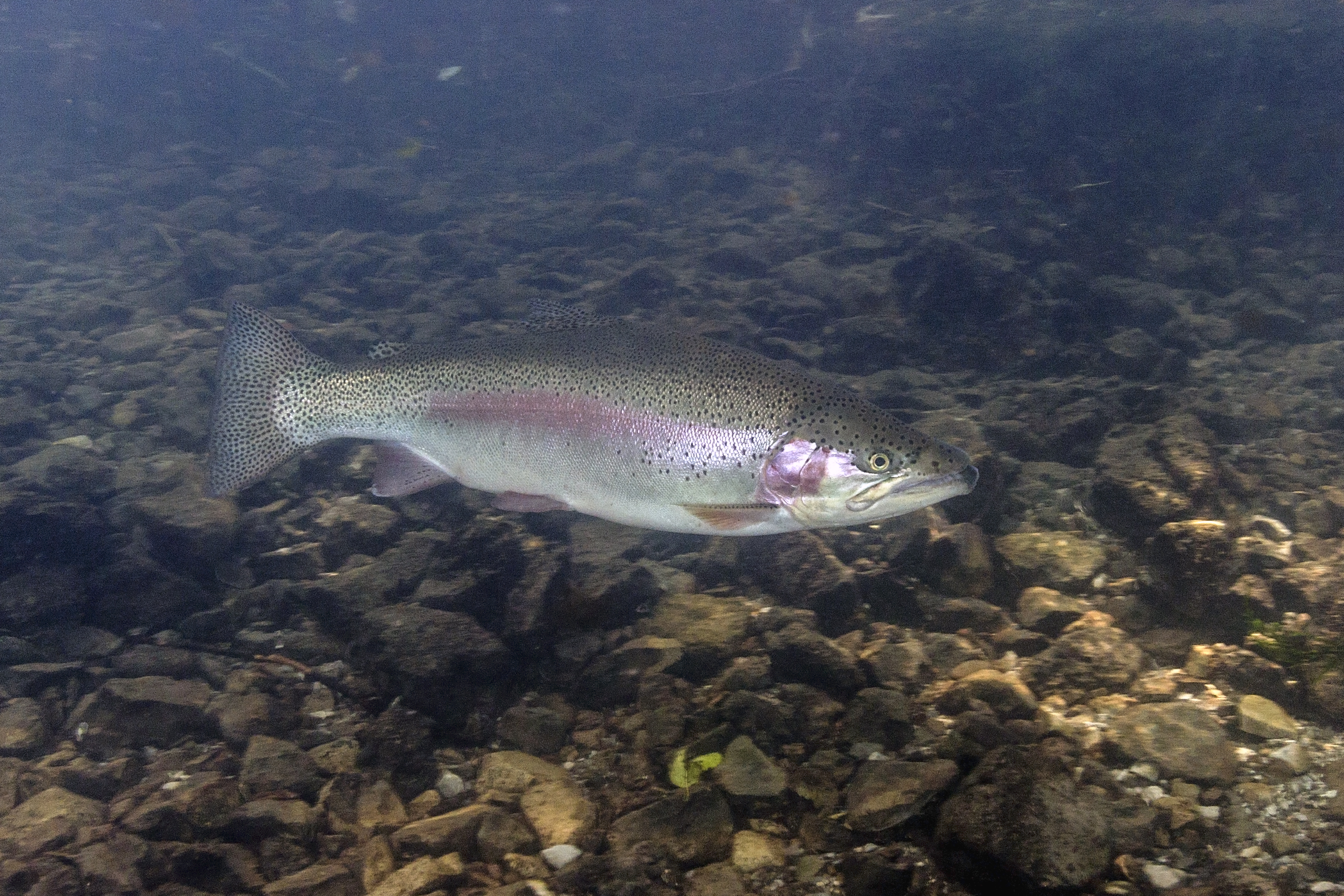 Rainbow trout (Oncorhynchus mykiss), swimming underwater of river Vrelo in Perucac, Serbia. Tributary of river Drina.